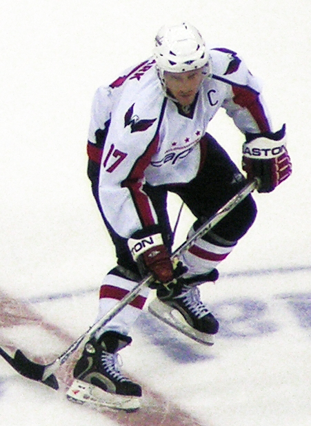 Chris Clark plays with Capitals at New Jersey